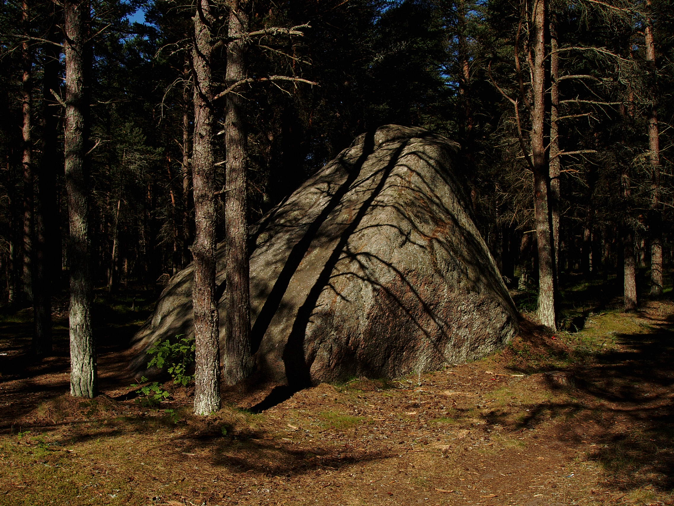 Kotkakivi boulder at island Prangli.